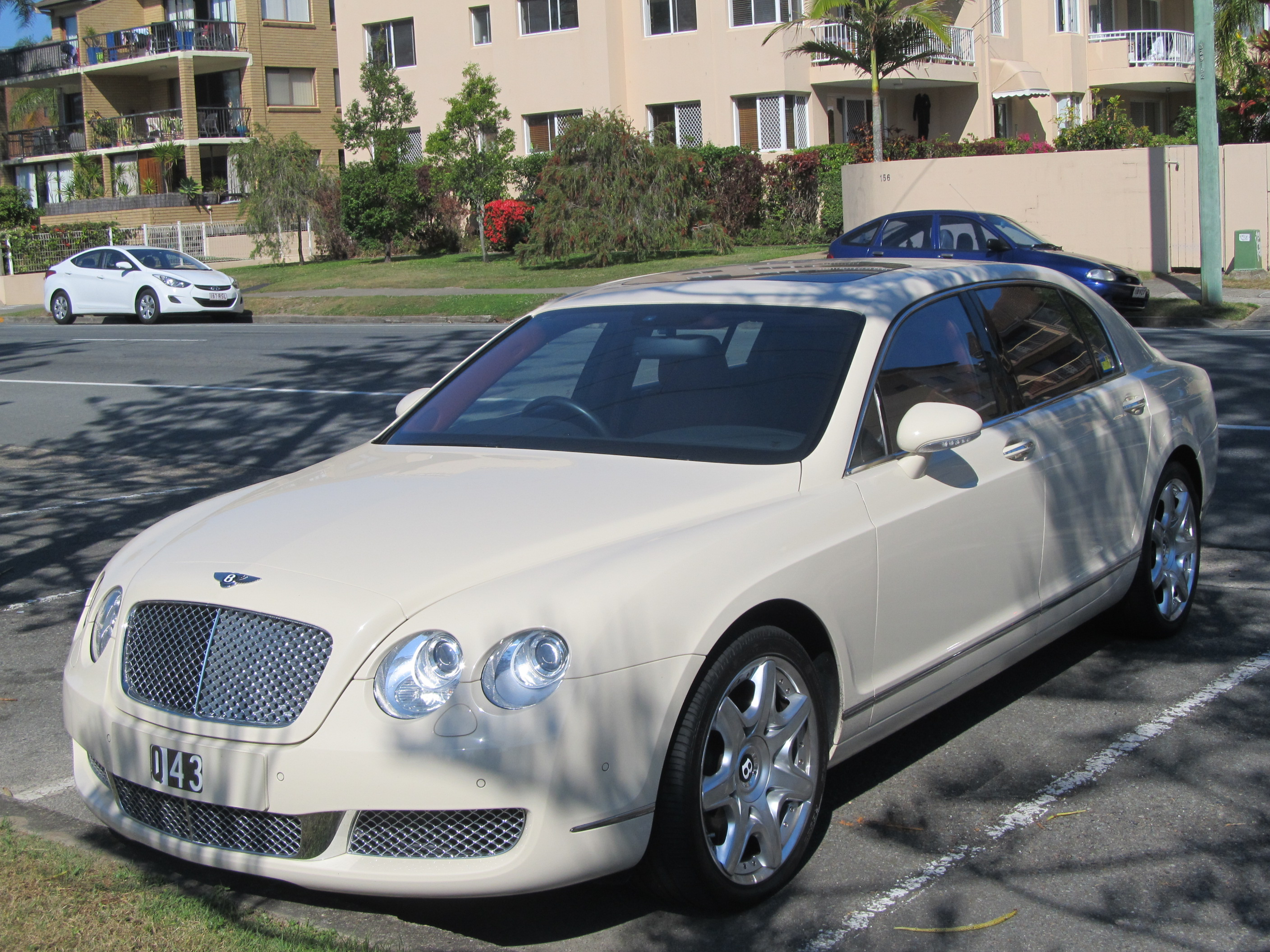 2008 Bentley Continental Flying Spur. Plenty of Bentleys on the Gold Coast, which isn't surprising as most of its permanent residents are pretty rich... However, they seem to prefer the Conti GT rather than the Flying Spur, which is my pick out of the two. Can anyone guess the white car in the background?